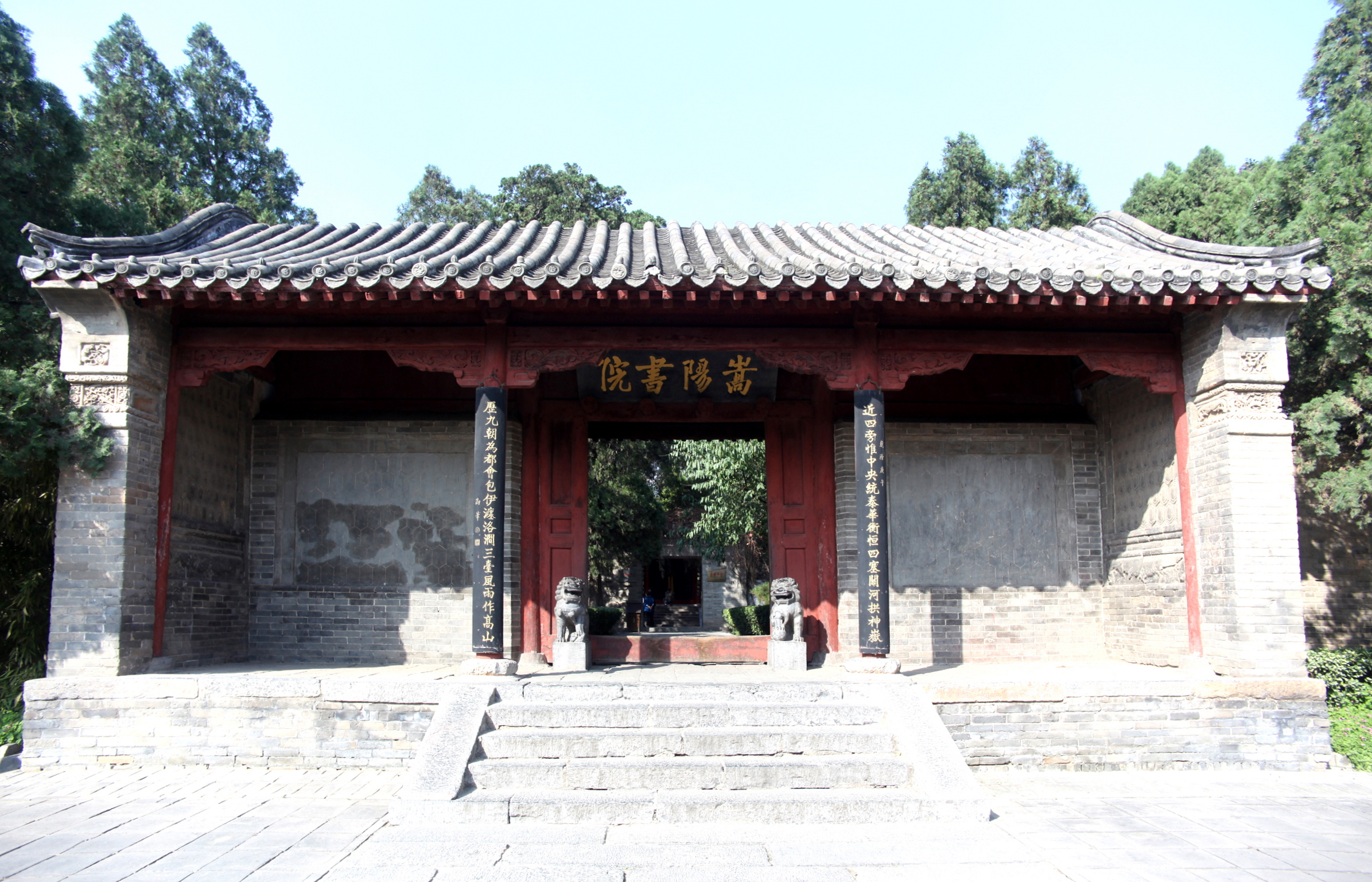 Song Yang Academy in Luoyang